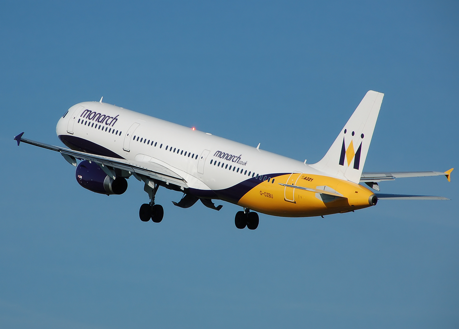 Monarch Airlines Airbus A321-200 (G-OZBU) takes off at Manchester Airport, England.